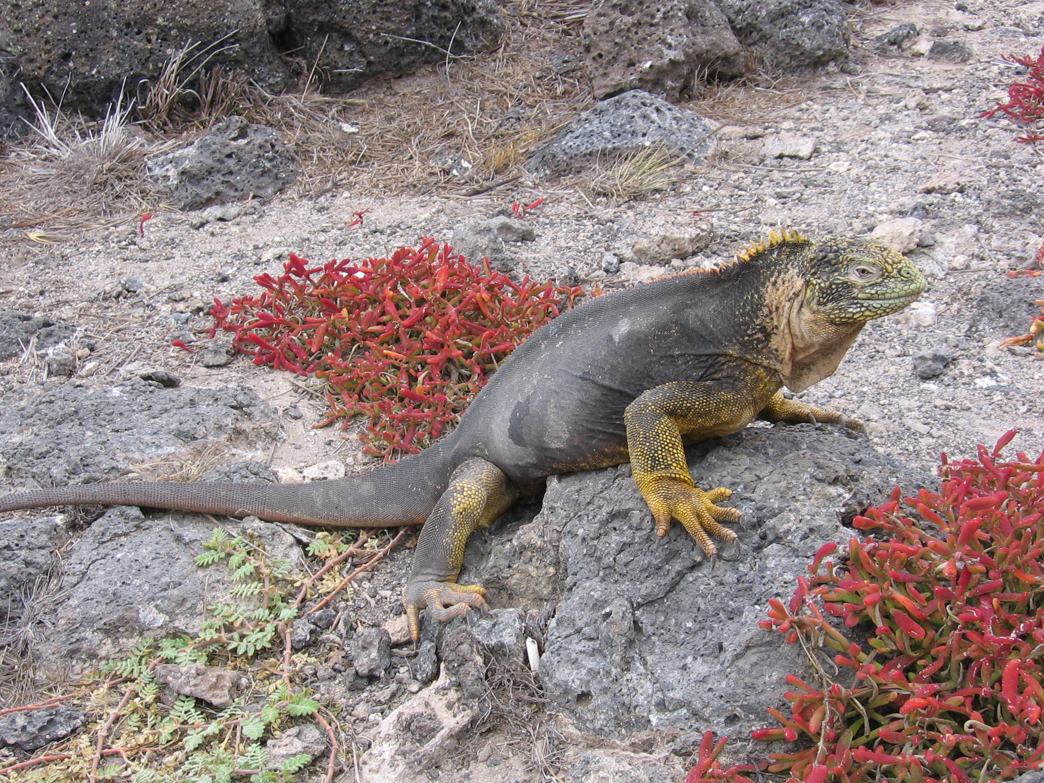 An Iguana at Galápagos.